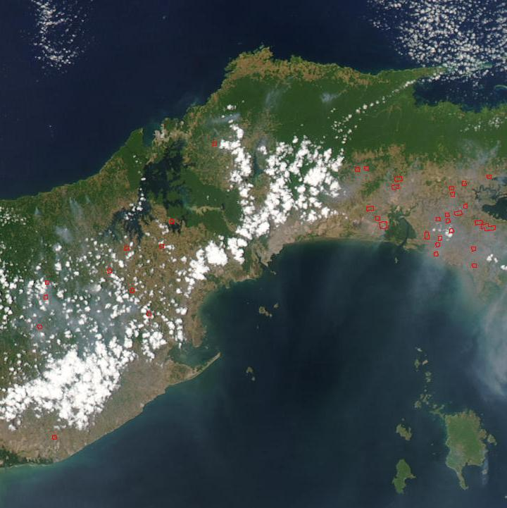 Satellite image showing location of Panama canal. White clouds are also visible.